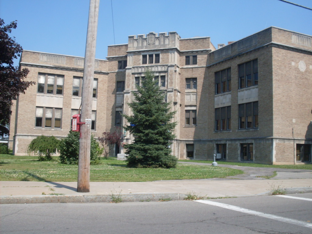 Former Geneva Middle School and Geneva High School in Geneva, New York. Currently a satellite campus of Finger Lakes Community College.